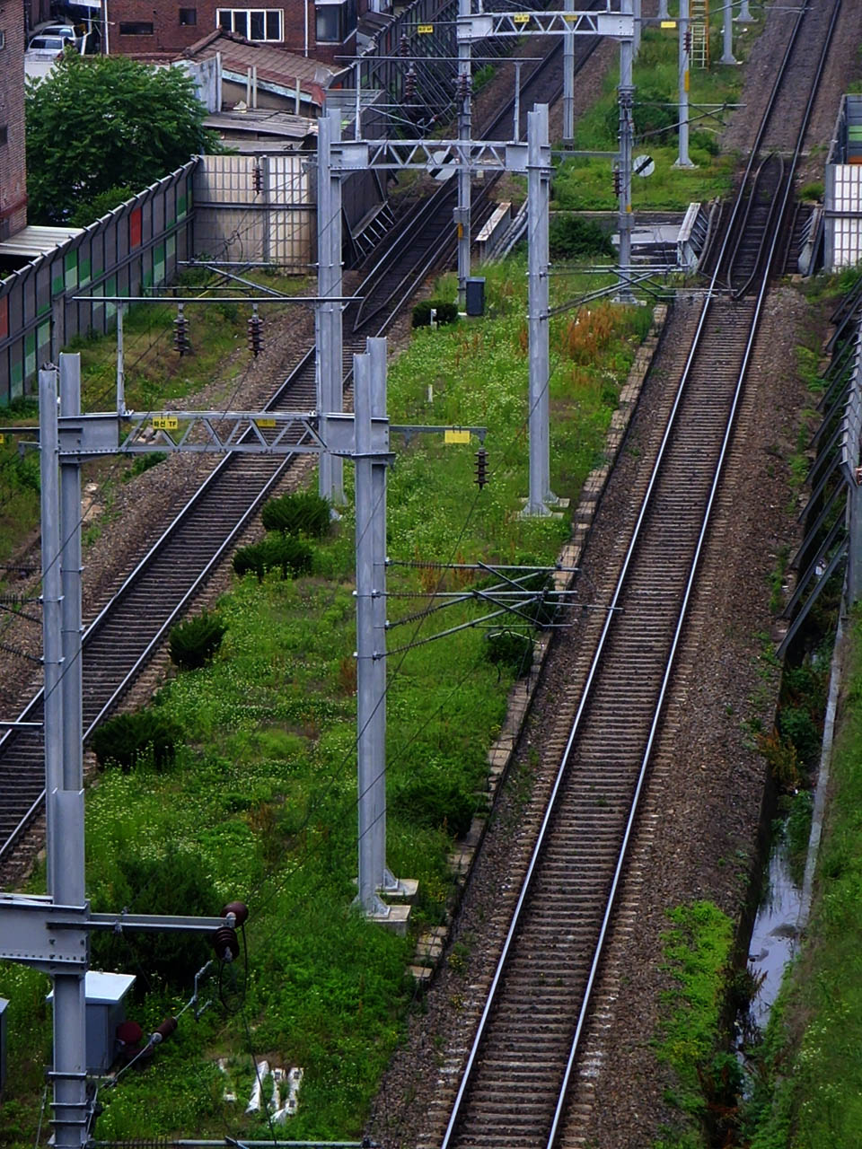 Gyeongui Line Ahyeon-ri Station Site